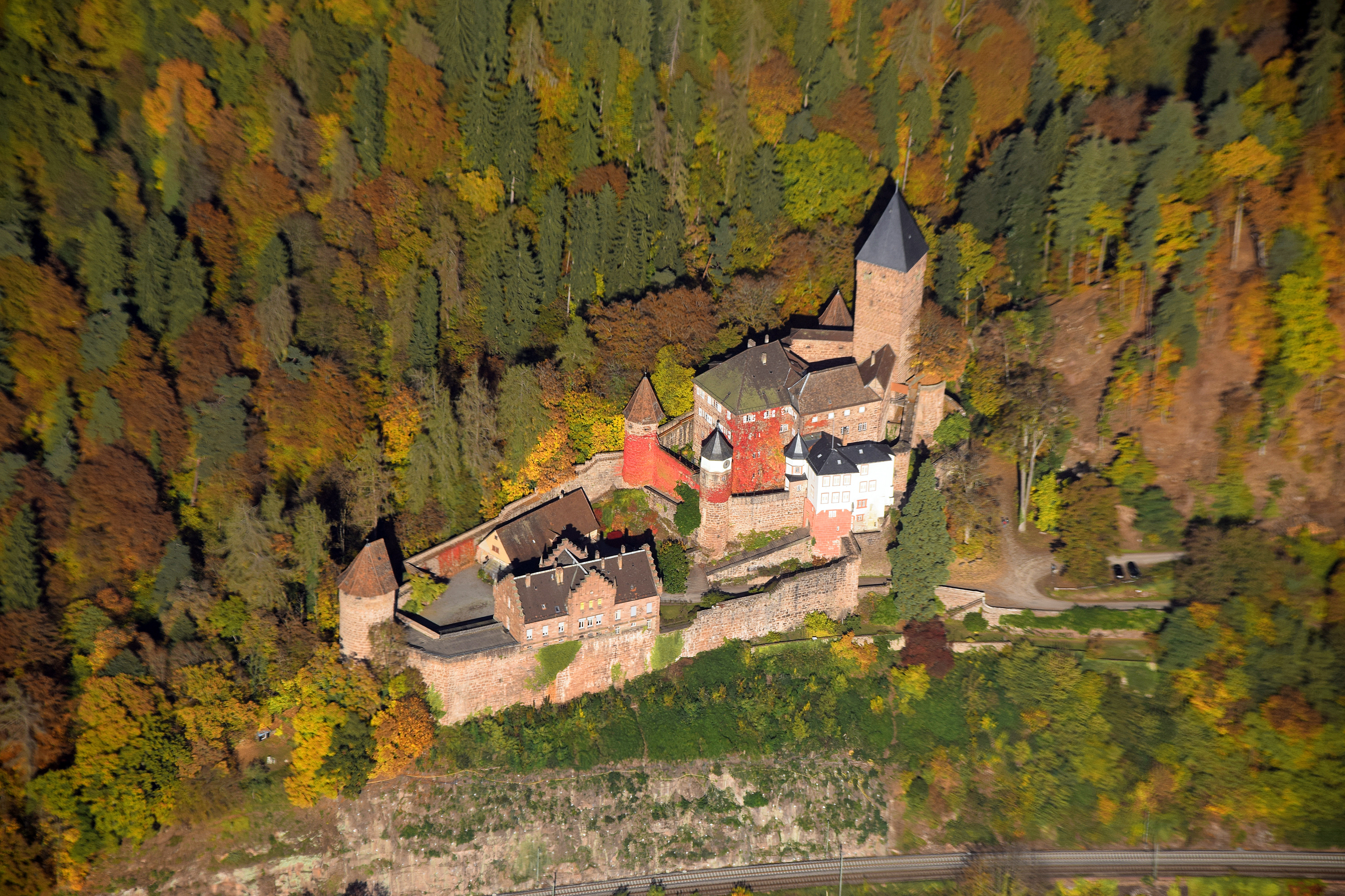 Aerial photo of Zwingenberg Castle near Neckargerach, approx. 25 km east of Heidelberg. The blur at the edge of the image comes from the lens.